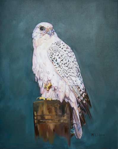 Oil painting by Mark Upton 18x14in (45x35cm) canvas. White gyr falcon sat on wooden falconers block. White gyr belonging to Roger Upton.